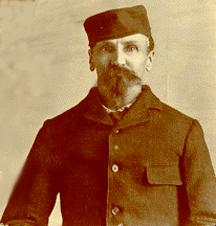 Alferd Packer in prison